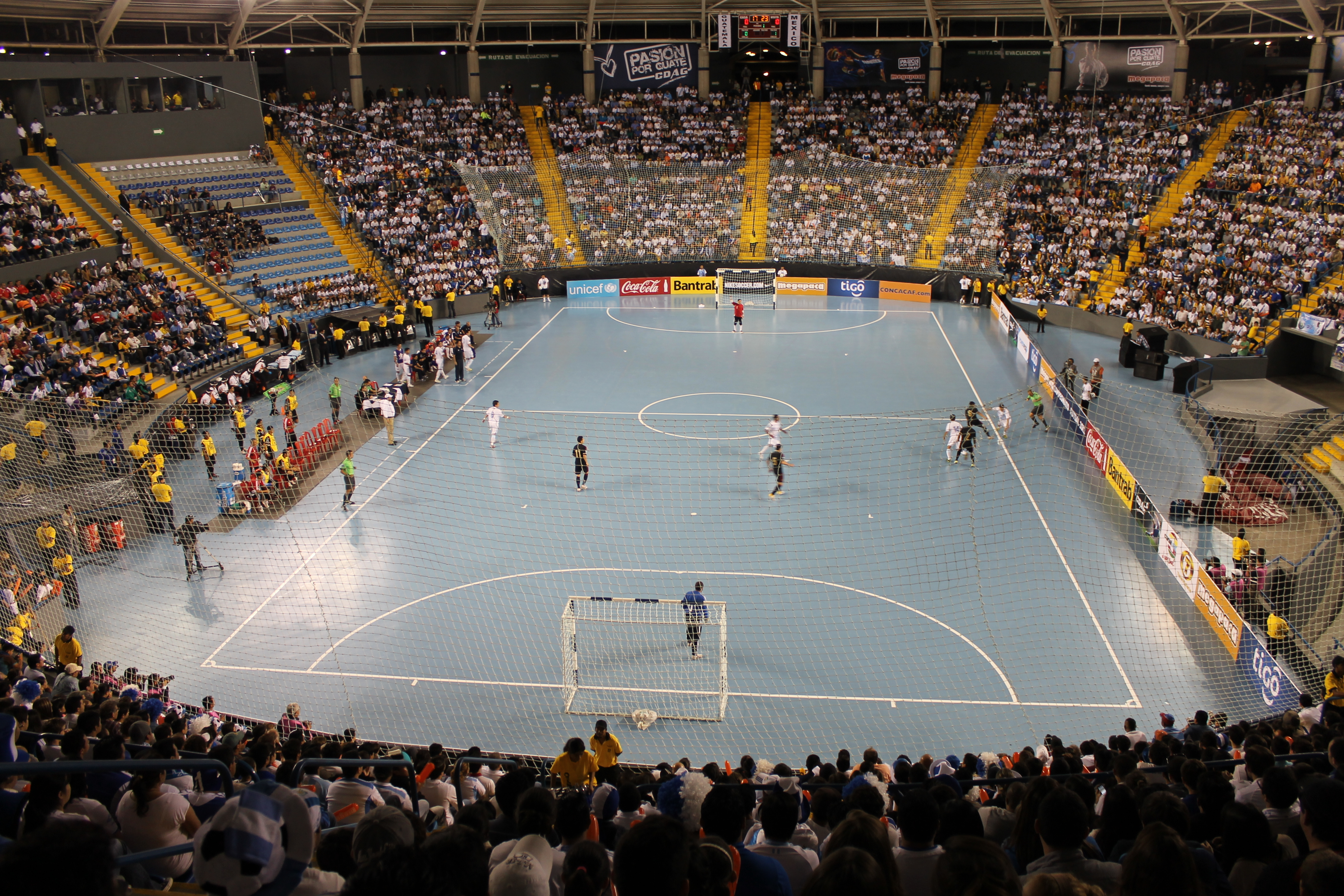 Futsal at Domo Polideportivo, Guatemala City